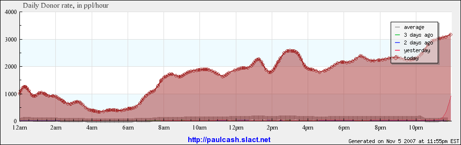 Ron Paul's donation rates on Nov. 5th